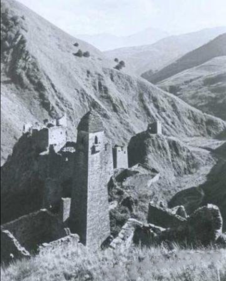 Nikar. Residental towers.